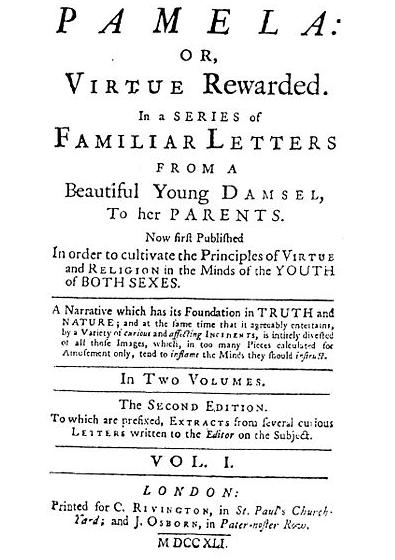 Cover for 1741 edition of Samuel Richardson's "Pamela, or Virtue Rewarded" (1740).